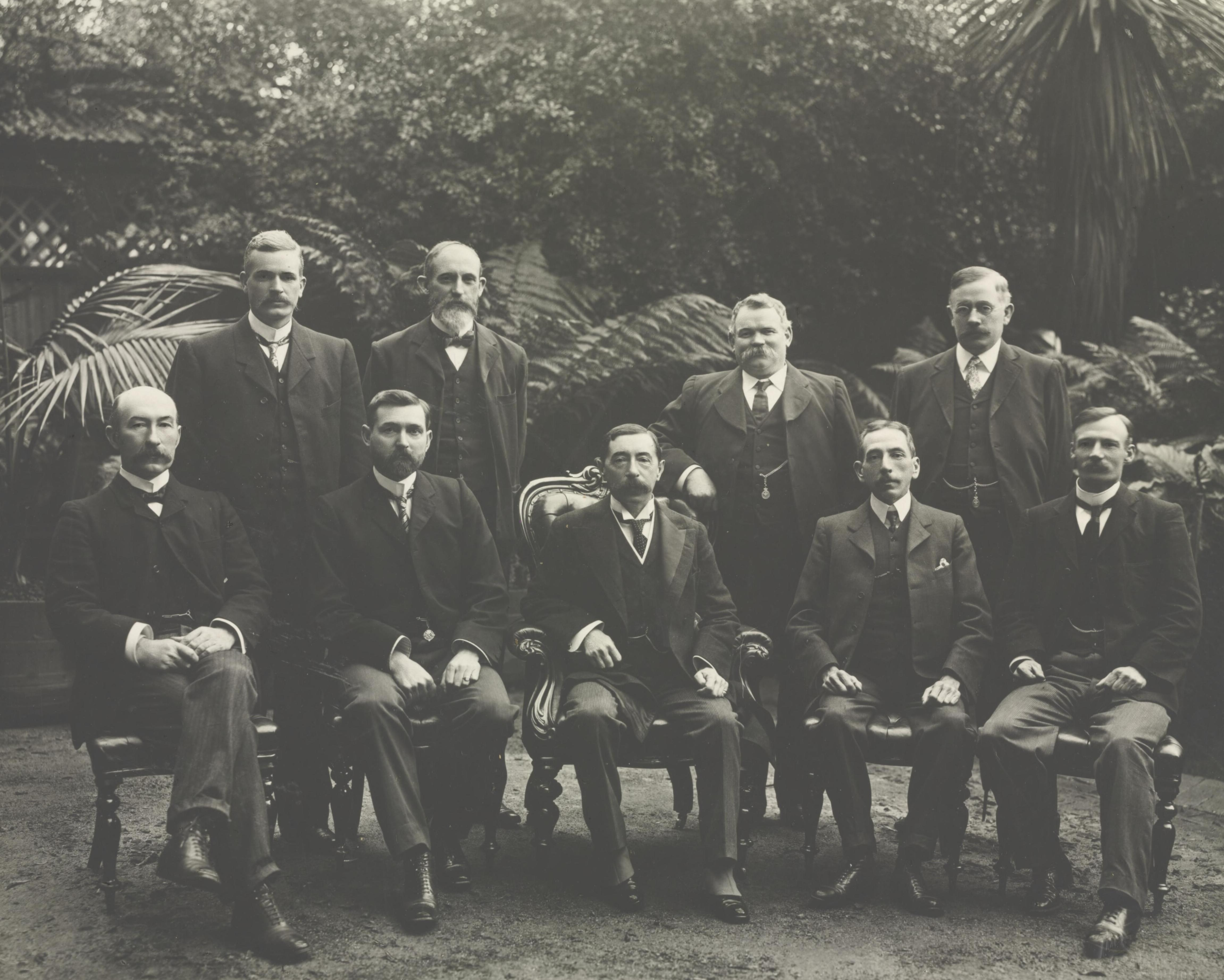 Photograph of members of the Watson Ministry. Back row (L-R): Andrew Fisher, Minister for Trade and Customs; Anderson Dawson, Minister for Defence; Gregor McGregor, Vice-President of the Executive Council; Hugh Mahon, Postmaster-General. Front row (L-R): Henry Bournes Higgins, Attorney-General; Chris Watson, Prime Minister; Lord Northcote, Governor-General; Billy Hughes, Minister for External Affairs; Lee Batchelor, Minister for Home Affairs.